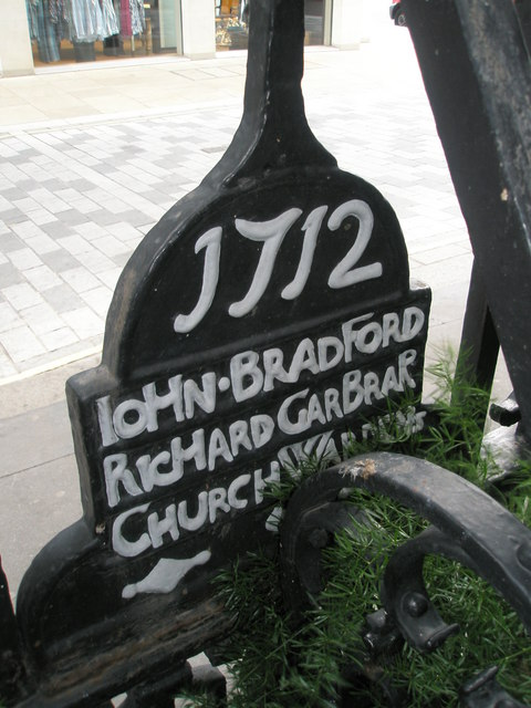 Churchwarden's plaque within churchyard of St Peter Westcheap Many people would be puzzled why a church that was burnt down in 1666 and not rebuilt still had a churchwarden nearly fifty years later. You have to remember that in those days the area had a huge residential population, and they insisted on being represented as a separate entity within the structure of the church they were amalgamated with:St Mary-le-Bow. This arrangement persisted until 1907!